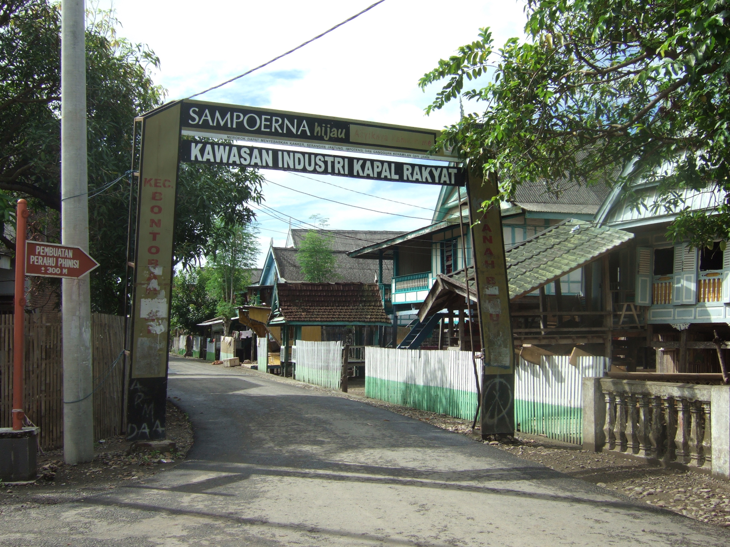 Pinisi Center Tana Beru Bonto Bahari, Bulukumba Regency, South Sulawesi